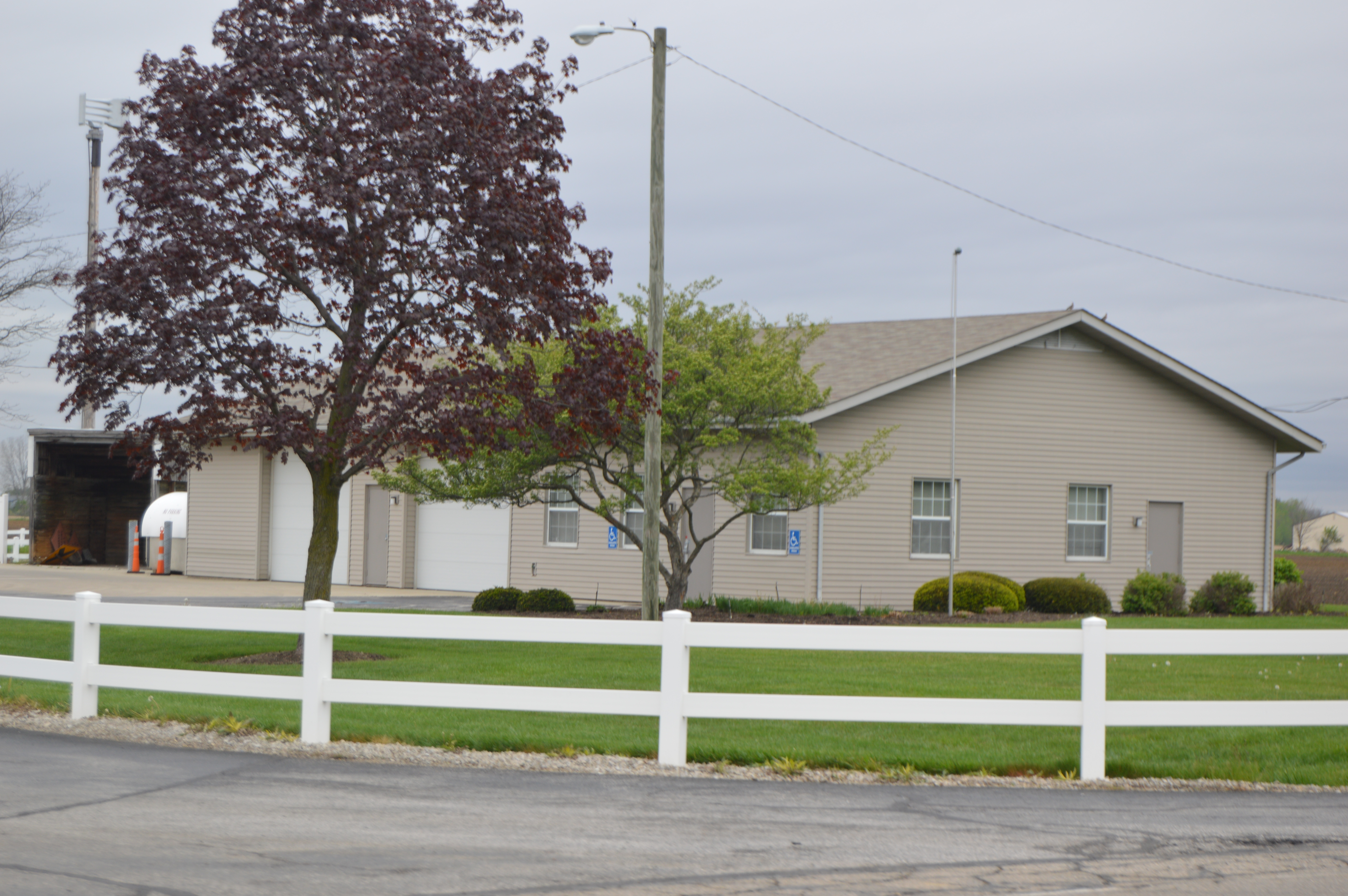 Front of the Brown Township hall, located at 2491 Walker Road in Brown Township, Franklin County, Ohio, United States.